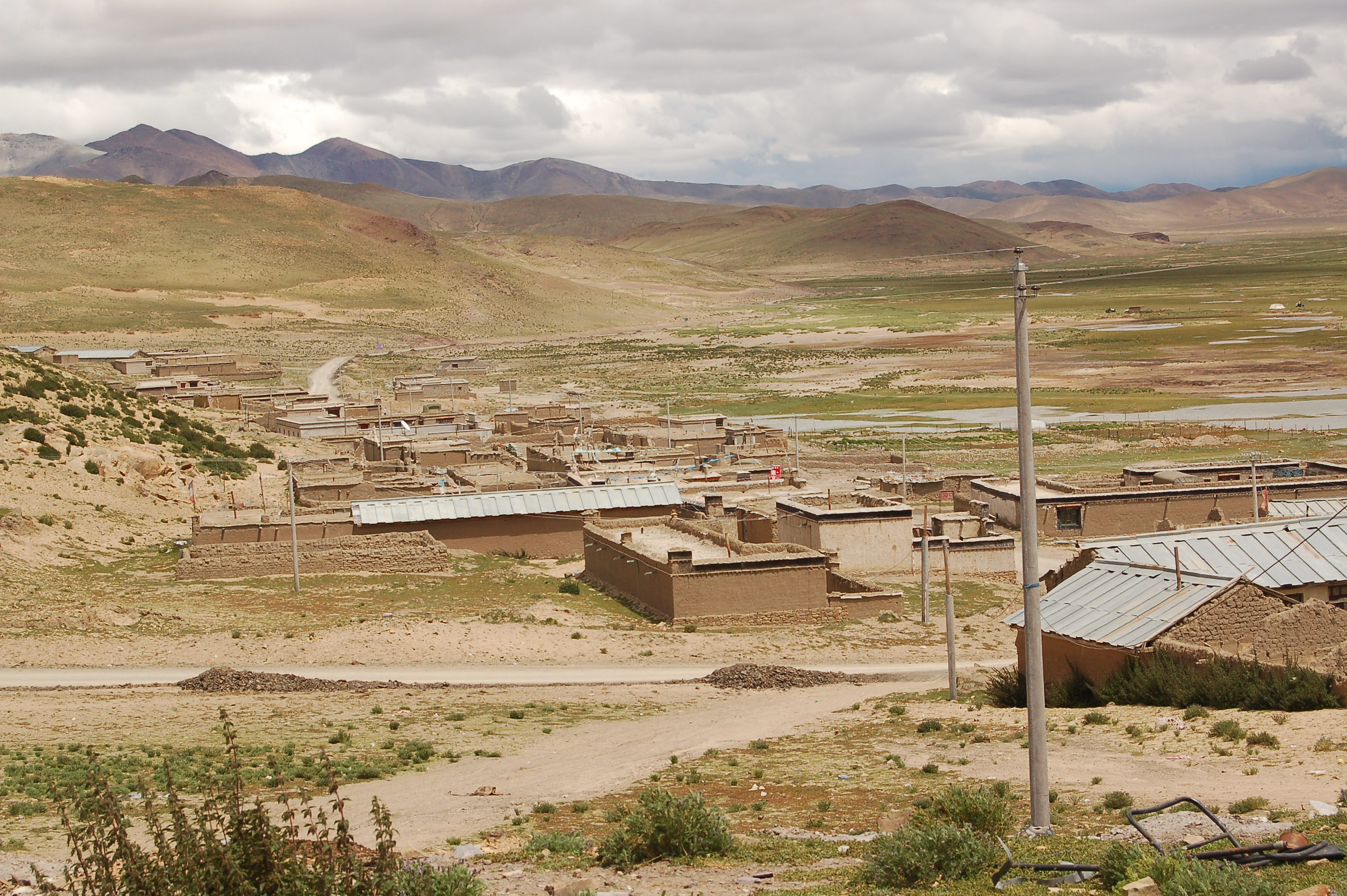 View of Tradün, Shigatse, Western Tibet